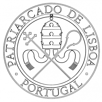 Selo do Patriarcado de Lisboa